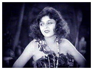 Clarine Seymour in the American drama film The Idol Dancer (1920).